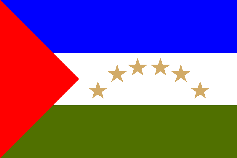 Flag of Región Autónoma del Atlántico Sur, Nicaragua